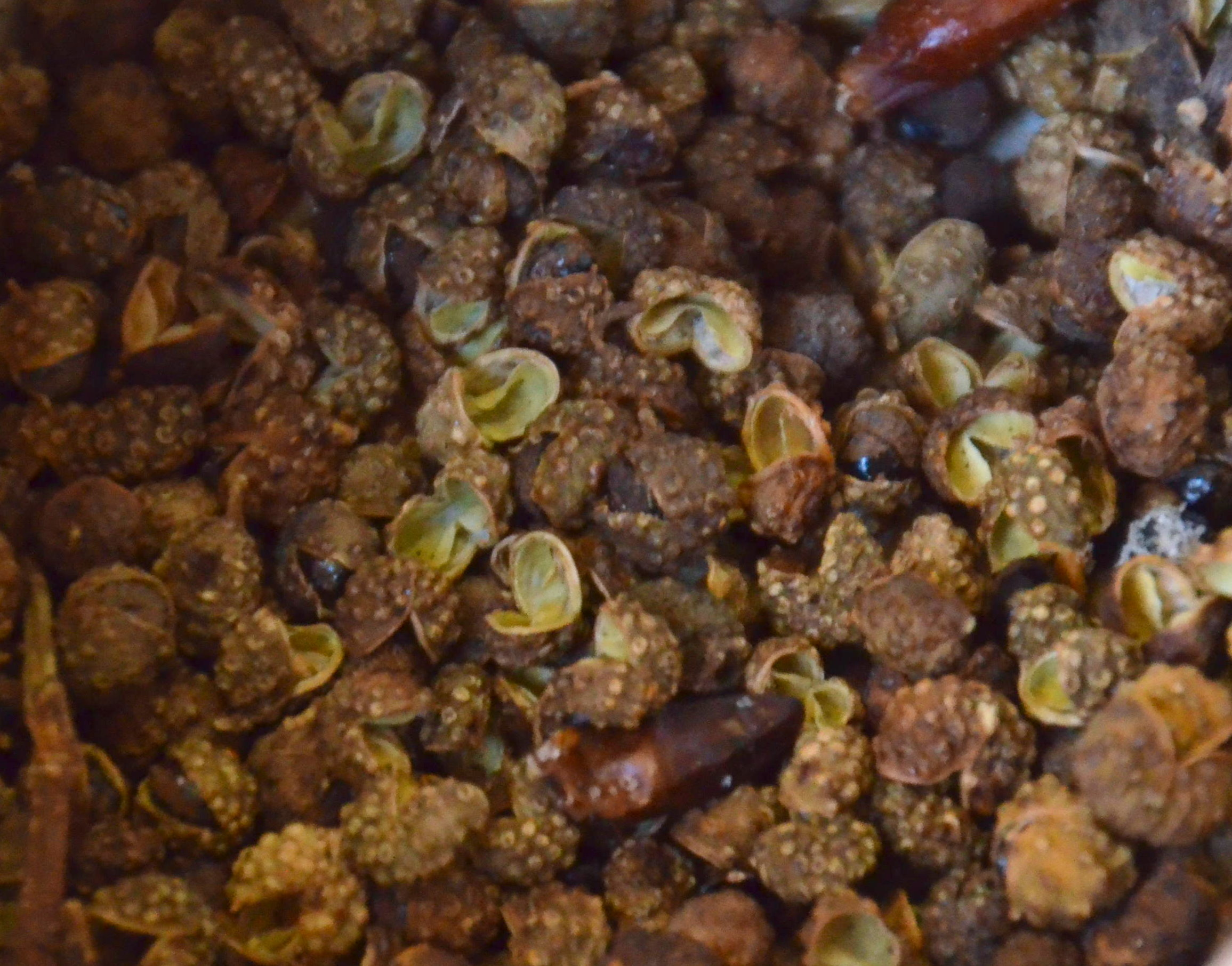 Green sichuan pepper, sold in Wenchuan Xian, in Sichuan province.